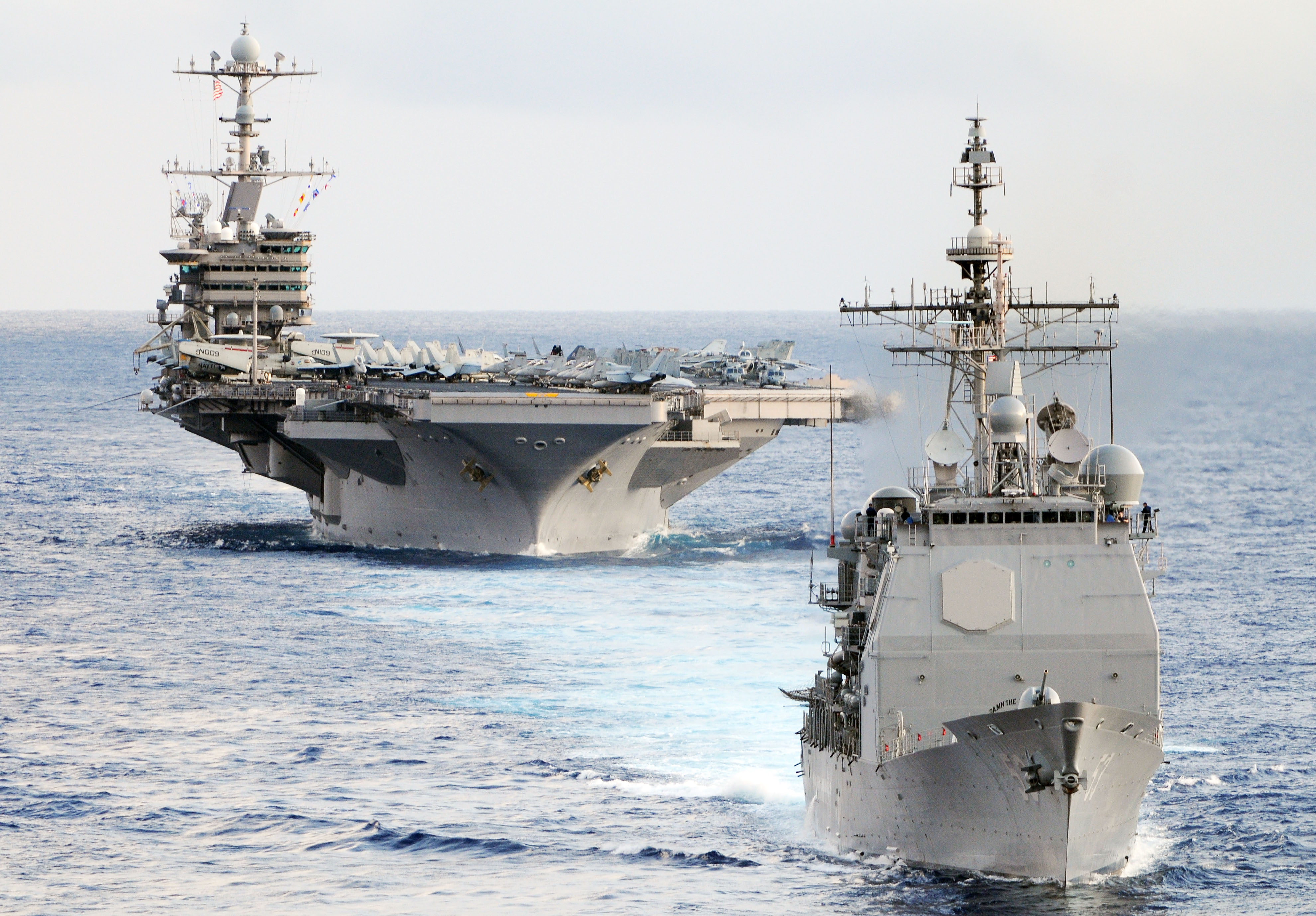 Pacific Ocean – The Ticonderoga-class guided-missile cruiser USS Mobile Bay (CG 53) and the aircraft carrier USS John C. Stennis (CVN 74) are underway after completing Valiant Shield 2012 (VS12). VS12 is an integrated joint training exercise that offers the opportunity to integrate Navy, Air Force and Marine Corps forces at sea.